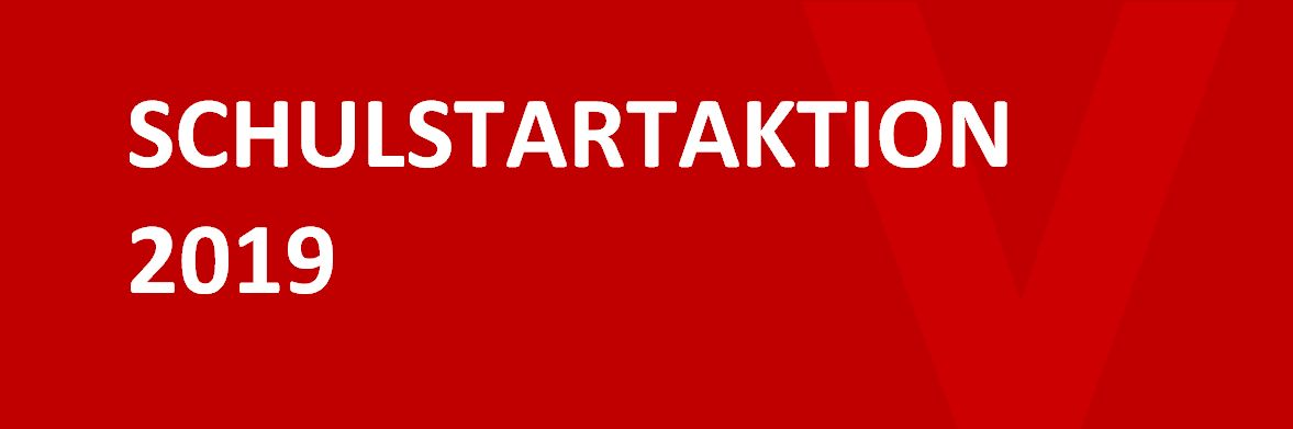 Replicated sketch of Volkshilfe Österreich's (Austria) school start campaign ("Schulstartaktion").